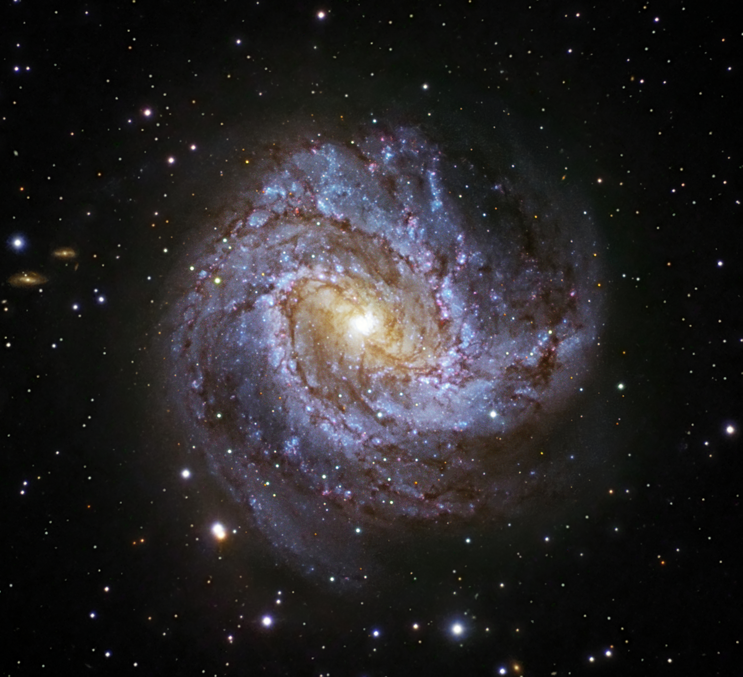 Located about 15 million light-years away towards the Hydra (the sea serpent) constellation, Messier 83 is a nearby face-on barred spiral galaxy with a classic grand design form. It is the main member of a small galactic group including NGC 5253 and about 9 dwarf galaxies. Messier 83 stretches over 40 000 light-years, making it roughly 2.5 times smaller than our own Milky Way. However, in some respects, Messier 83 is quite similar to our own galaxy. Both the Milky Way and Messier 83 possess a bar across their galactic nucleus, the dense spherical conglomeration of stars seen at the centre of the galaxies. Messier 83 has been a prolific producer of supernovae, with six observed in the past century. This is indicative of an exceptionally high rate of star formation coinciding with its classification as a starburst galaxy. Despite its symmetric appearance, the central 1000 light-years of the galaxy shows an unusually high level of complexity, containing both a double nucleus and a double circumnuclear starburst ring. The nature of the double nucleus is uncertain but the origin of the off centred nucleus could be a remnant core of a small galaxy that merged with Messier 83 in the past. The star clusters in the nuclear starburst rings are mostly young stars between 5 and 10 million years old. This image is based on data acquired with the 1.5-metre Danish telescope at ESO’s La Silla Observatory in Chile, through three filters (B, V, R).